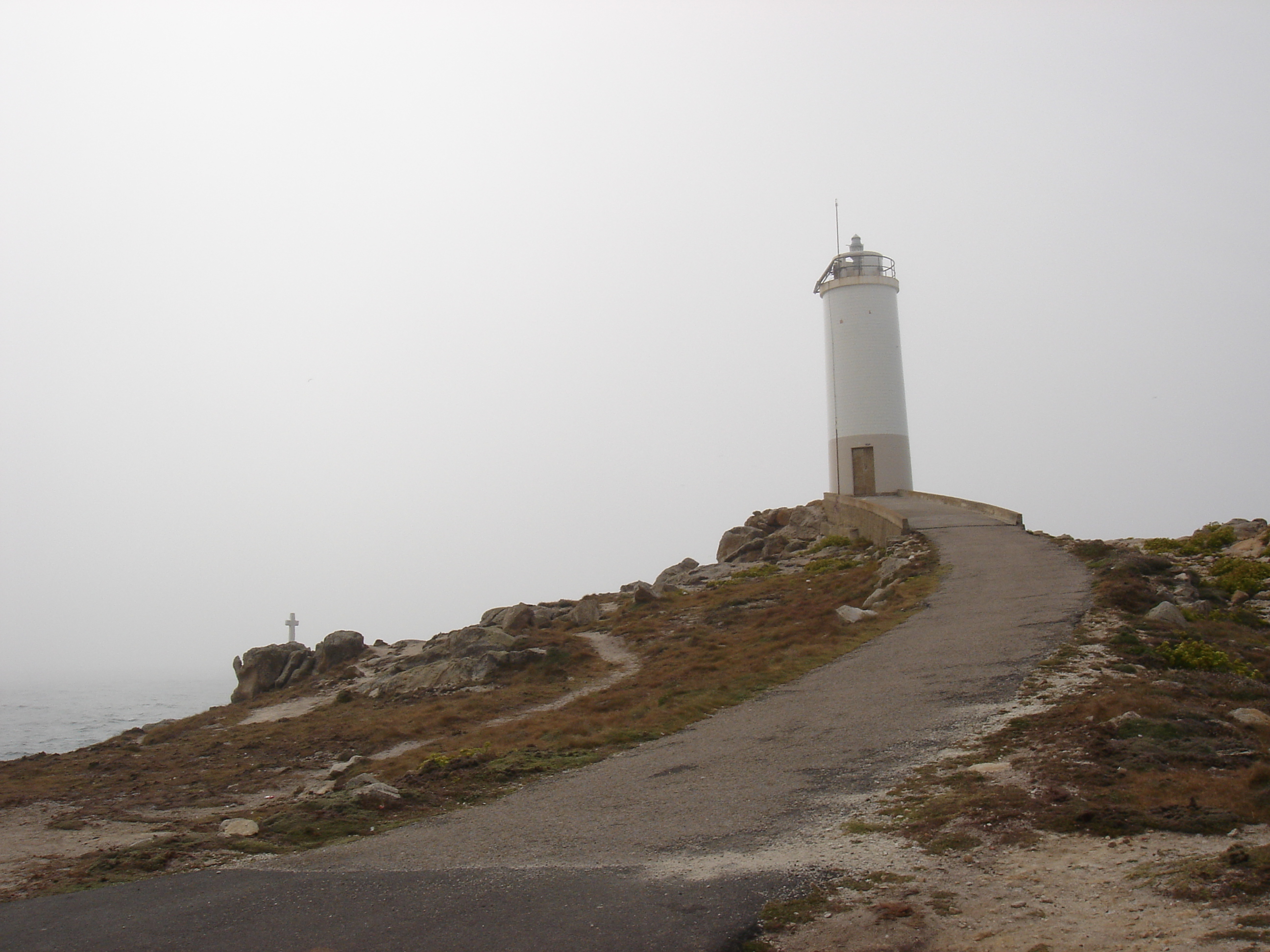 Cape Roncudo at Corme-Puerto, northwest of Spain